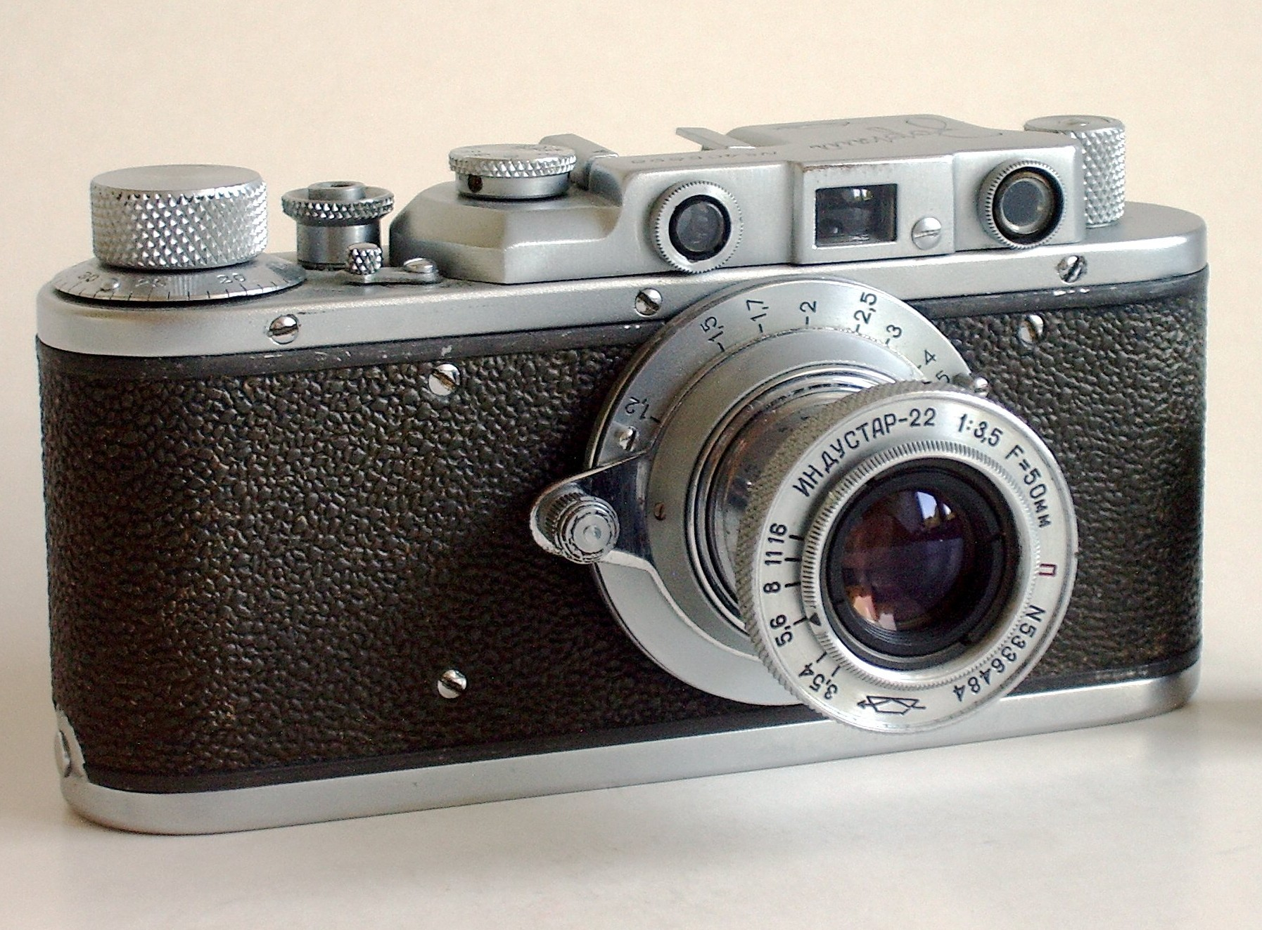 Zorki camera with Industar 22 f 1:3.5/5mm lens. - Russian Leica clone / Rangefinder camera for 135 film